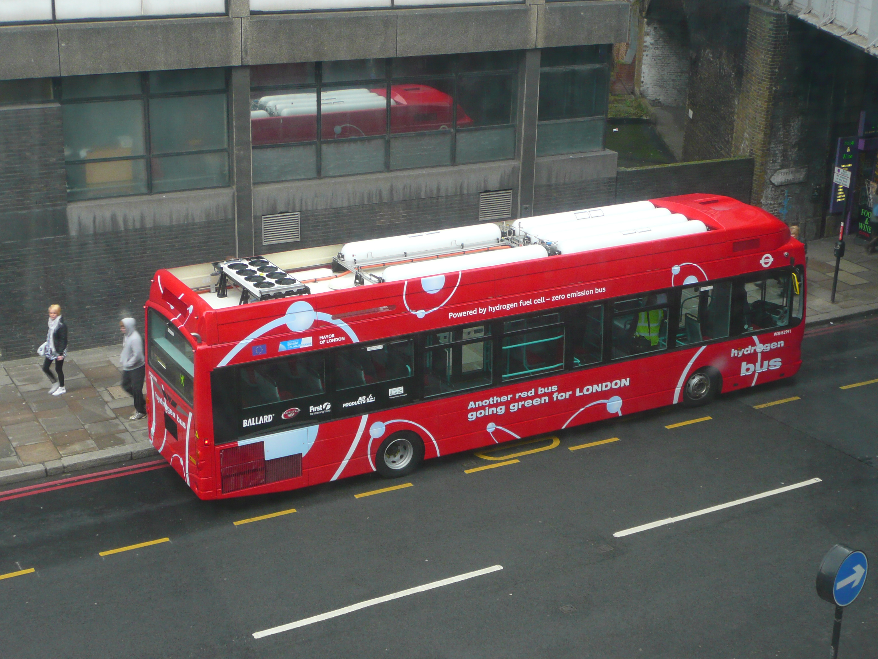 The six roof mounted hydrogen fuel tanks of First London bus WSH62991 (reg. LK60 HPE), a 2010 single-deck fuel cell bus (based on a VDL SB200 chassis and Wrightbus Pulsar 2 body). Operating London Buses route RV1, it is pictured from the high level concourse of Tower Gateway DLR station. It is part of the Transport for London / HyFLEET:CUTE project.